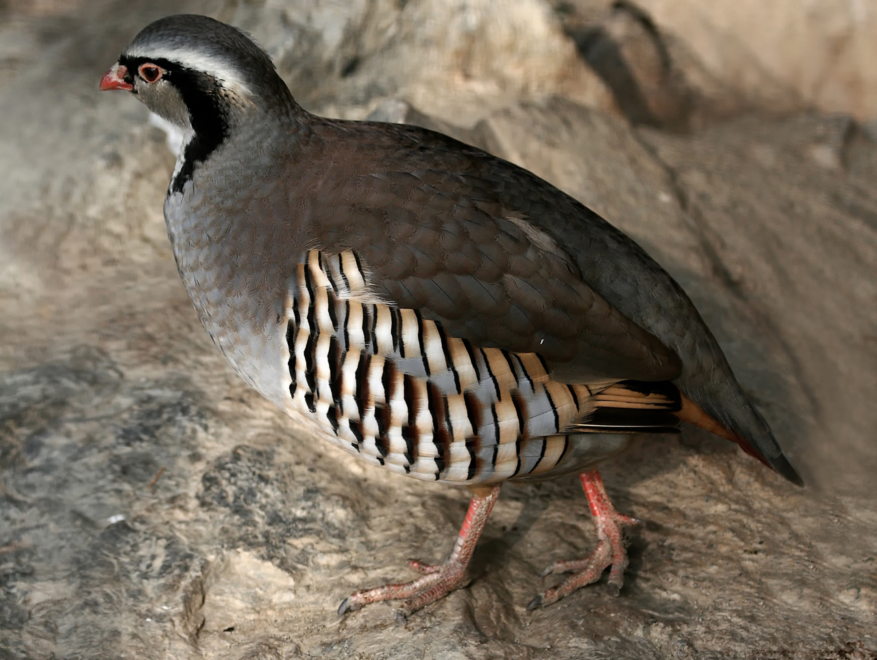 Alectoris is a genus of partridges with representatives in southern Europe, north Africa and Arabia, and across Asia to Tibet and western China.